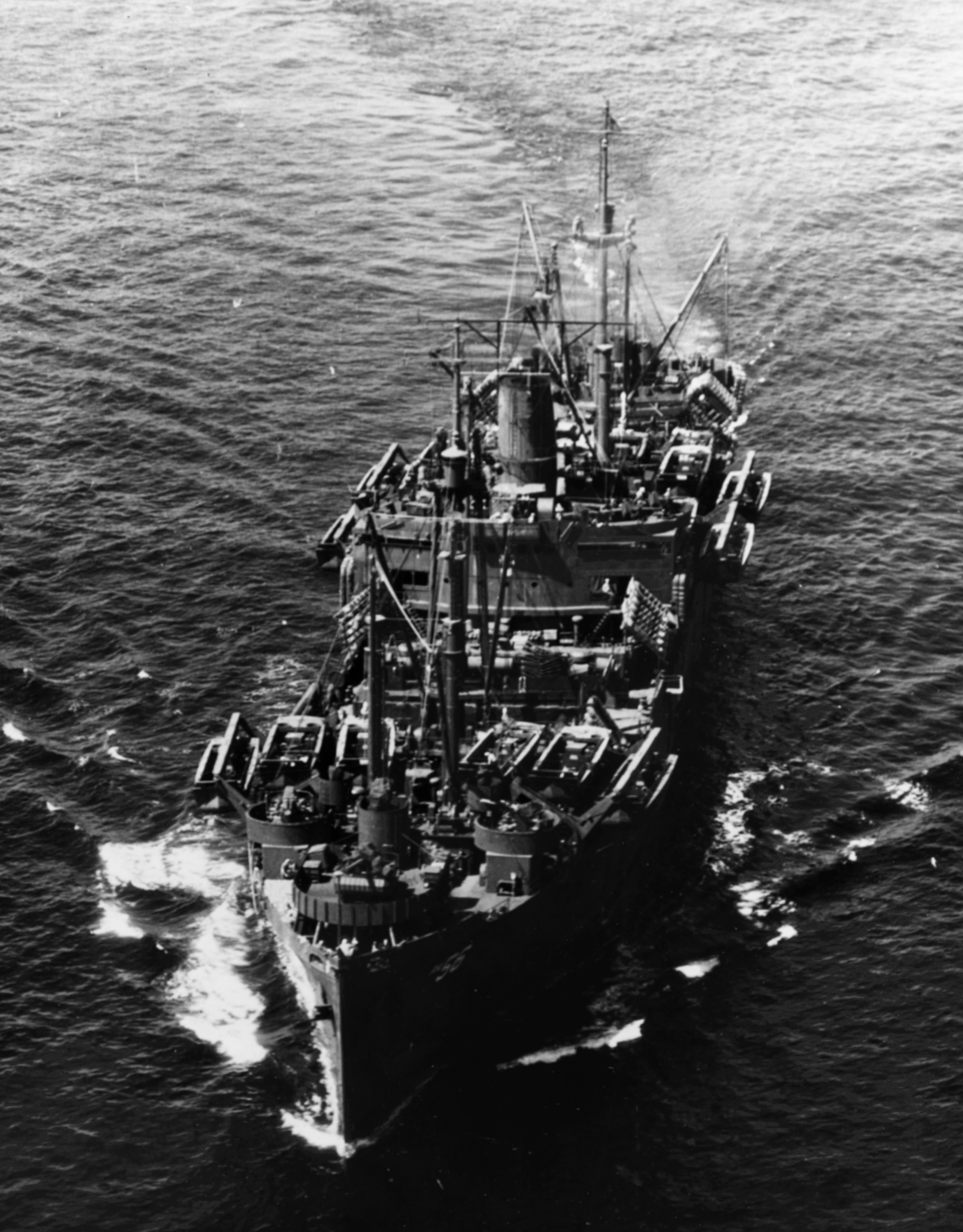 her decks crammed with landing craft and antiaircraft guns, underway off the California coast, 30 August 1945. Photographed from an aircraft based at Naval Air Station San Pedro.